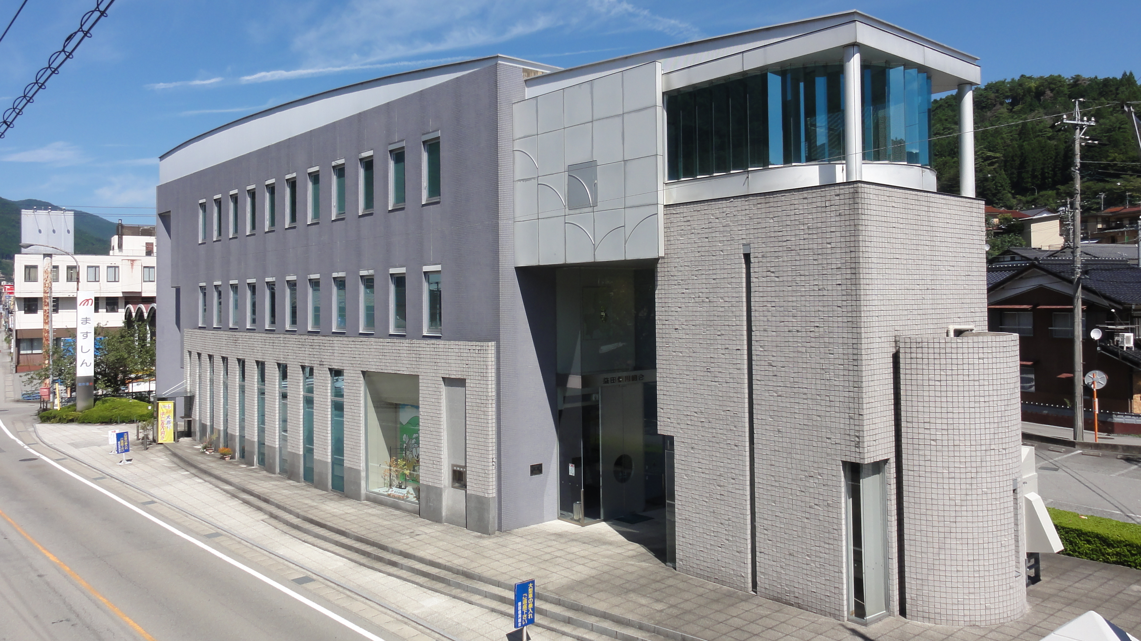 Masuda Credit union(Head office),Gifu prefecture,Japan